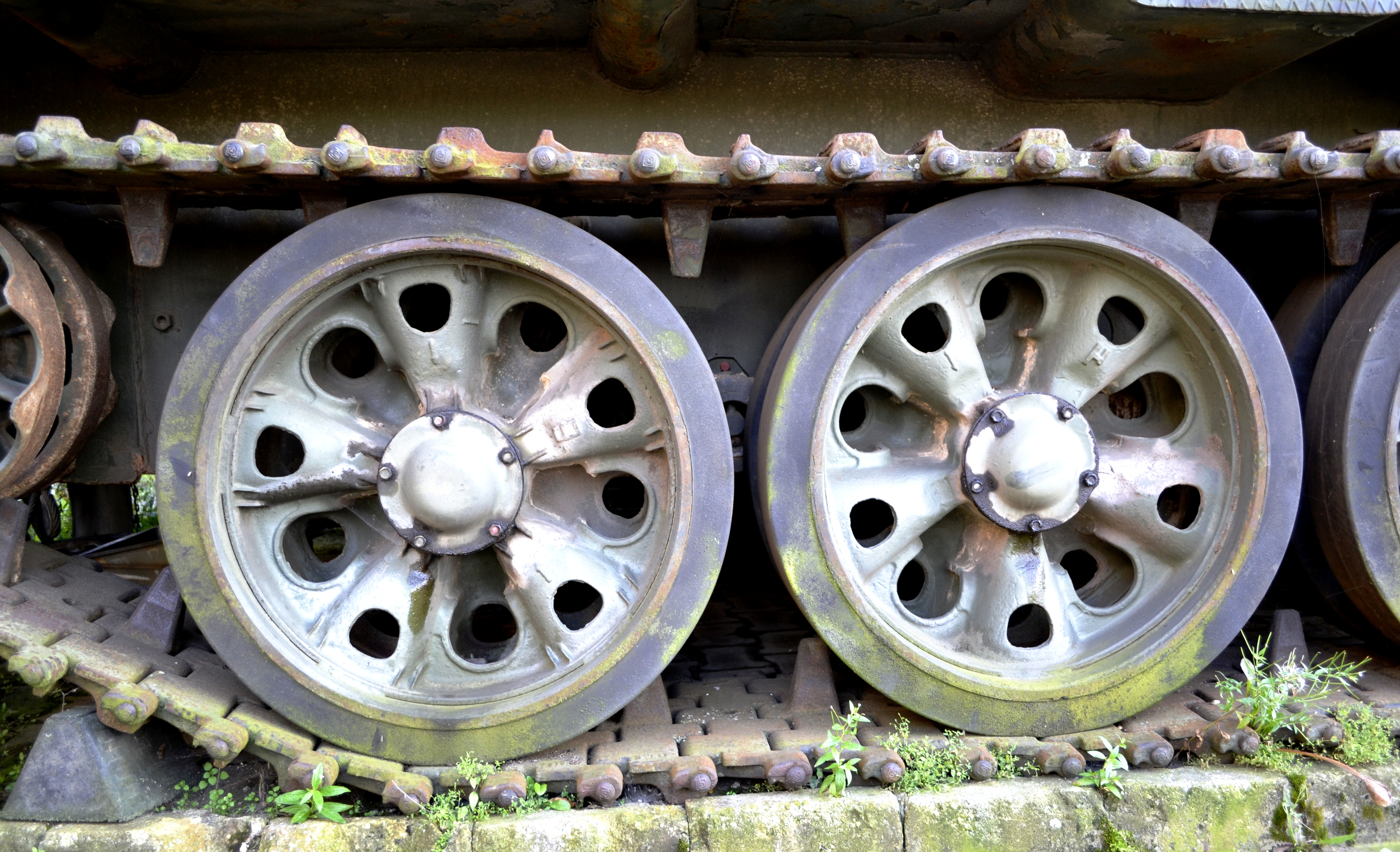 An AT-T artillery tracotr of the former East-German-Army.